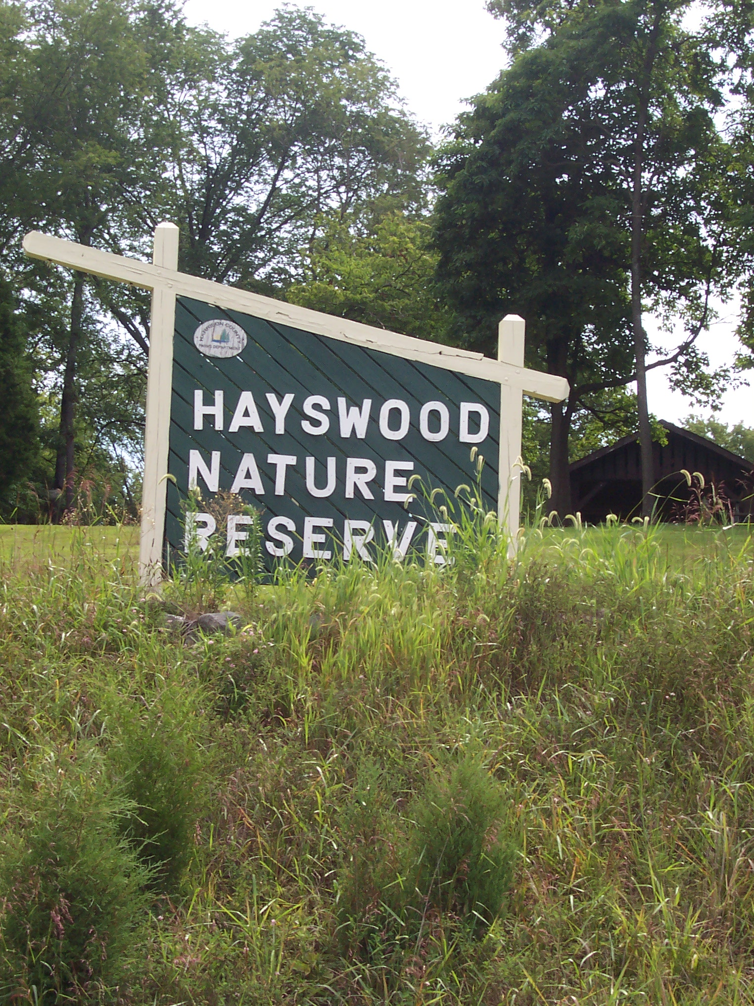 entrance to hayswood nature reserve